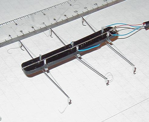 The original Stiquito robot, as built from the original kit materials.